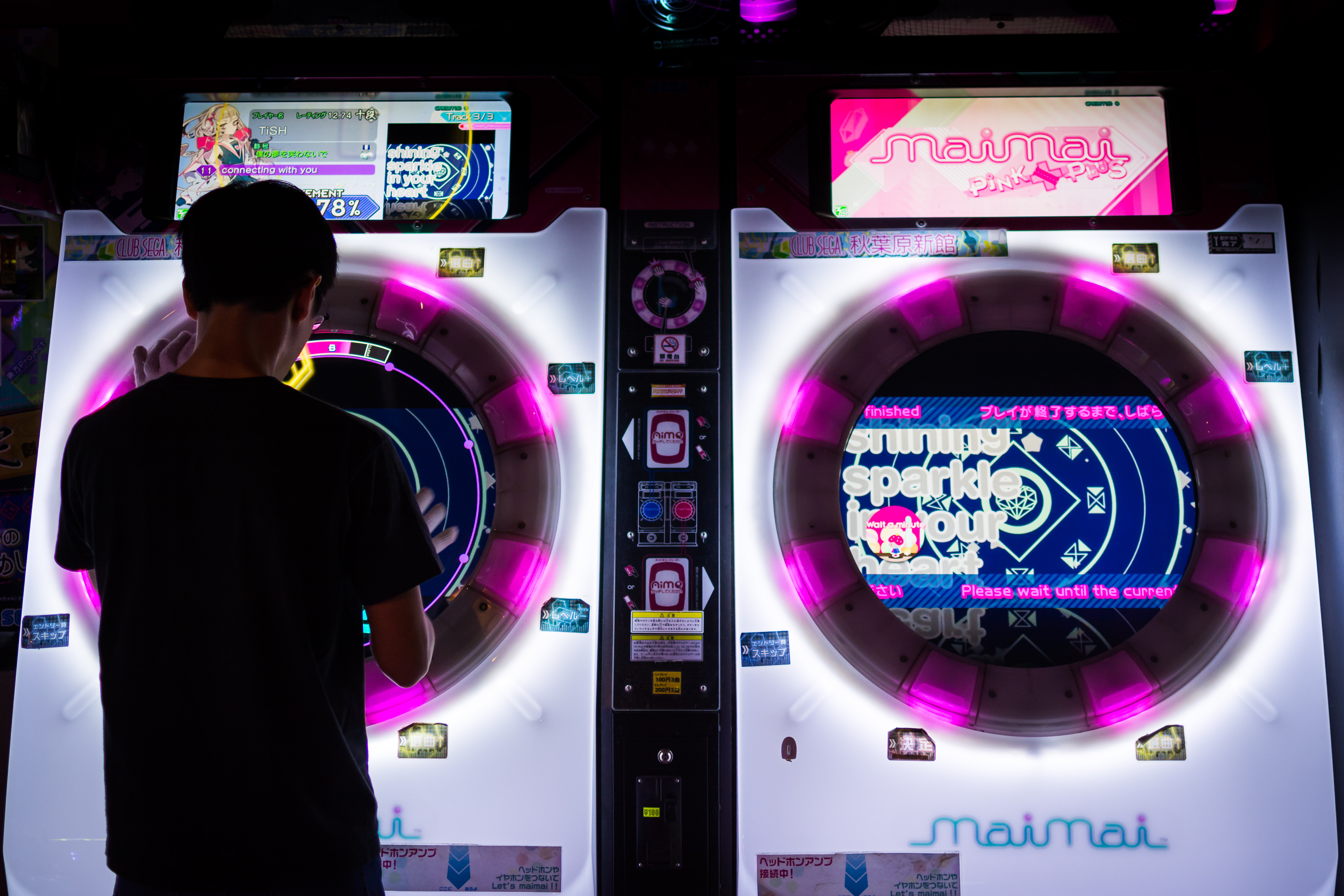 A player interacting on a maimai Pink machine.